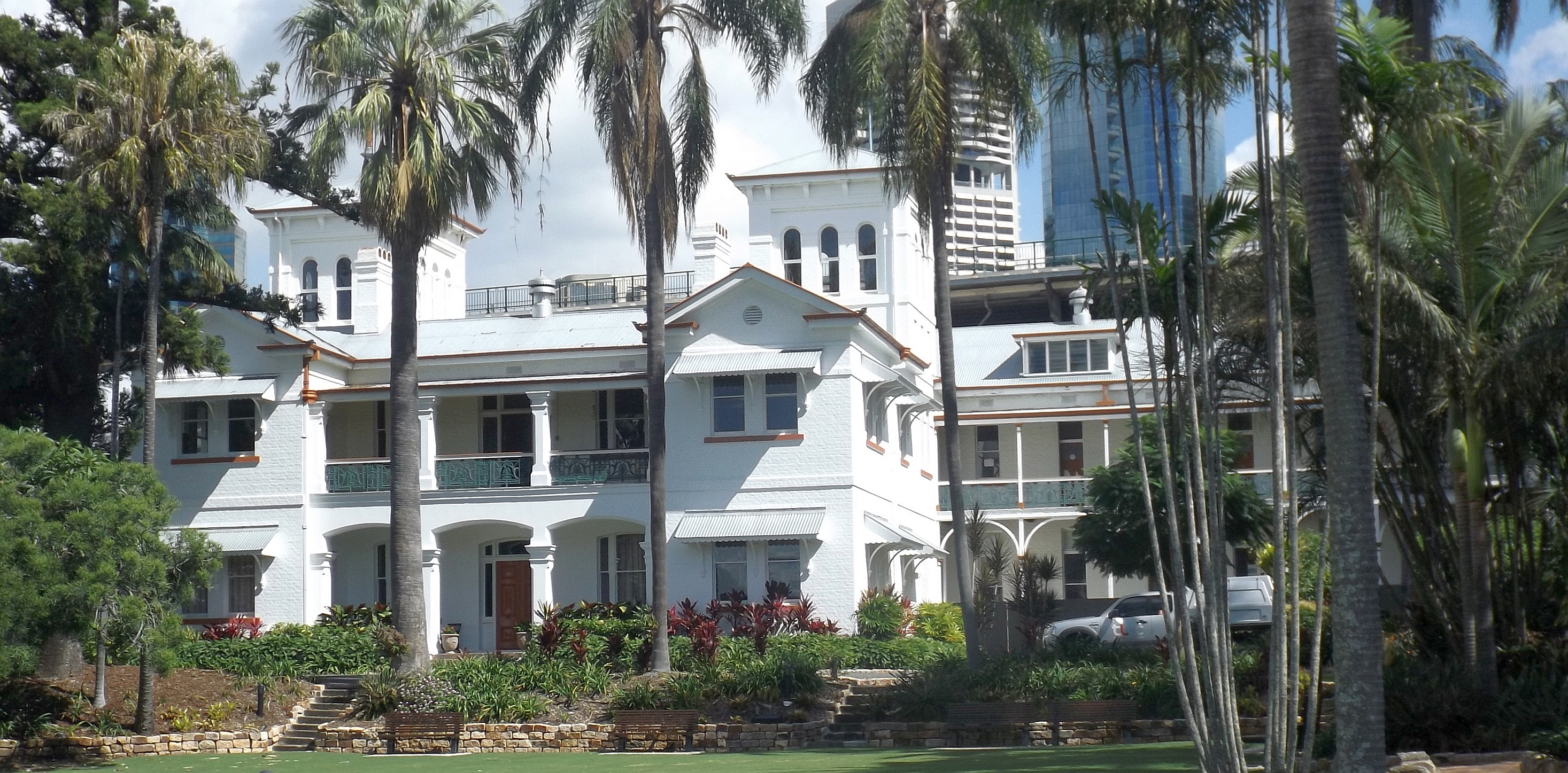 Photo of Yungaba Immigration Centre at Kangaroo Point, Brisbane, Queensland, Australia.